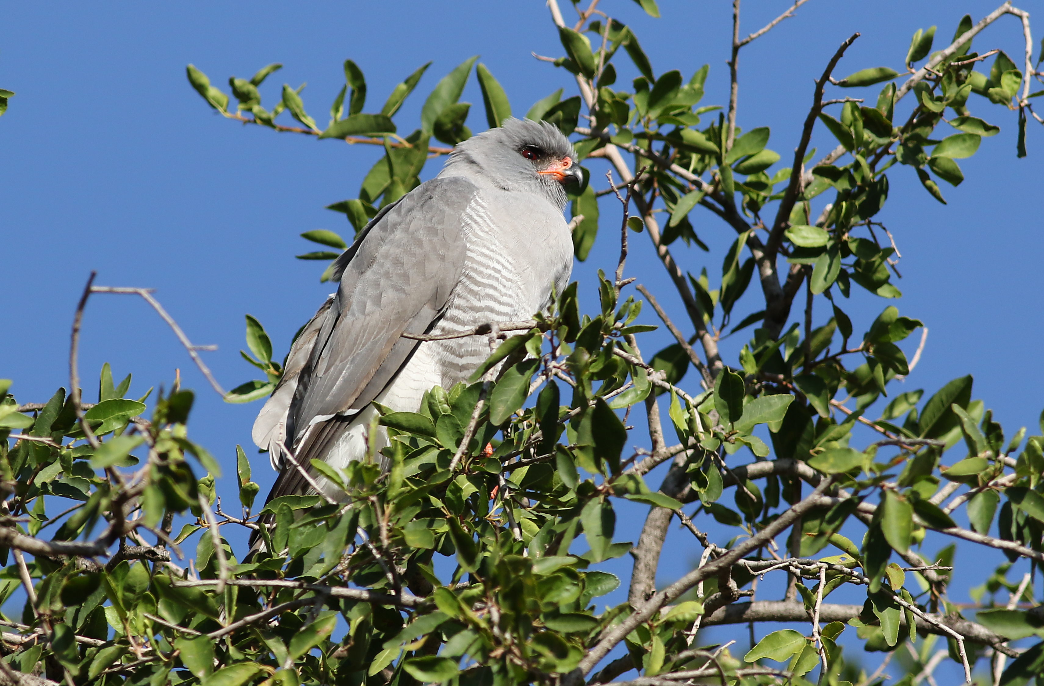 Gabar goshawk, Micronisus gabar, at Pilanesberg National Park, Northwest Province, South Africa